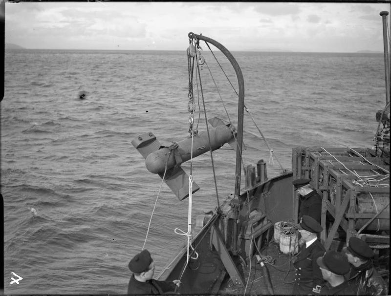 The Royal Navy during the Second World War Lowering the Diverta Paravane overboard of HMS BENTINCK off Greenock.